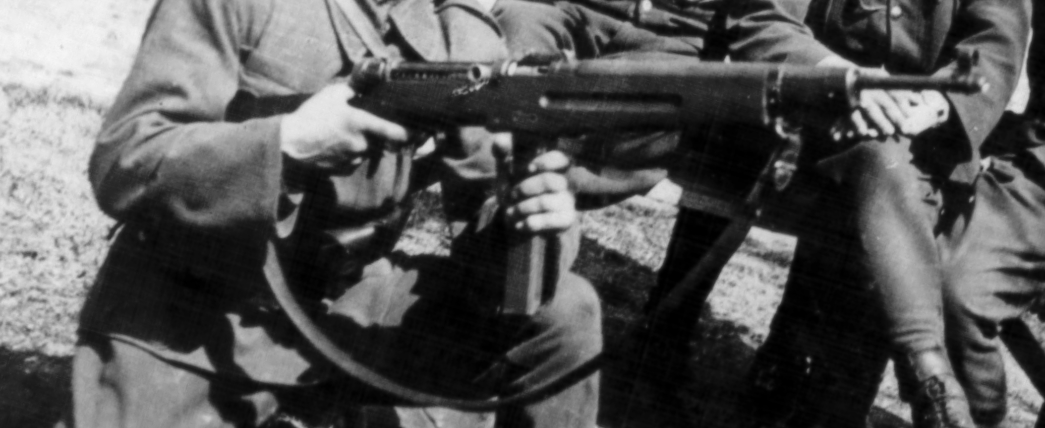 Danuvia 43M